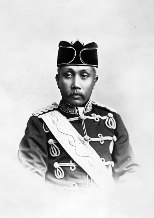 Studio portrait of Ma'amun Al Rashid Perkasa Alam Shah, Sultan of Deli